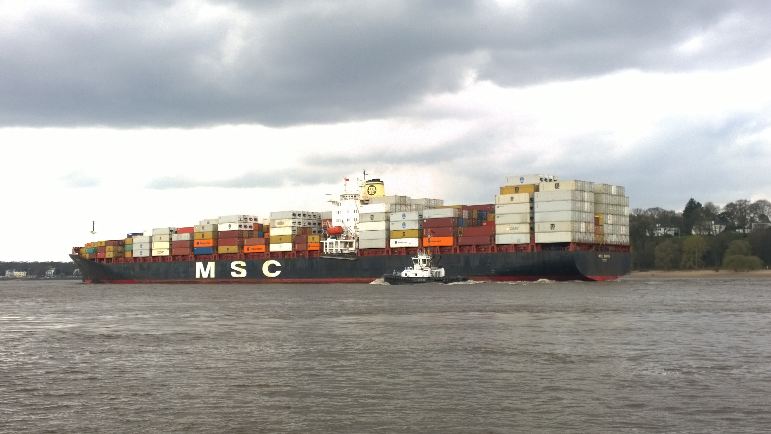 Container ship MSC Manu out port of Hamburg, River Elbe downstream